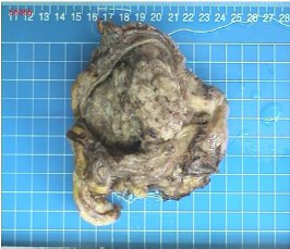 Photography gross organ of the MI-TCC sample after surgery